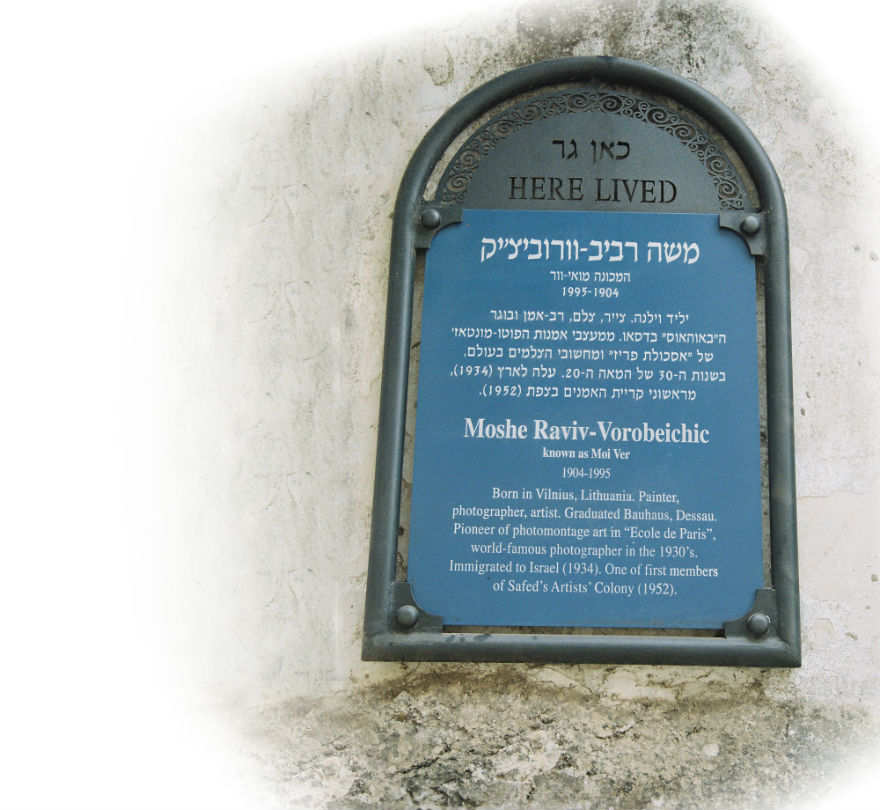 Artist colony Safed sign